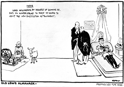 Gandhi and Lord Willingdon caricature, 1932. in the balloon: Lord Willingdon, by request of Downing Street goes on hunger strike to force Mr. Gandhi to admit the new constitution as "touchable".